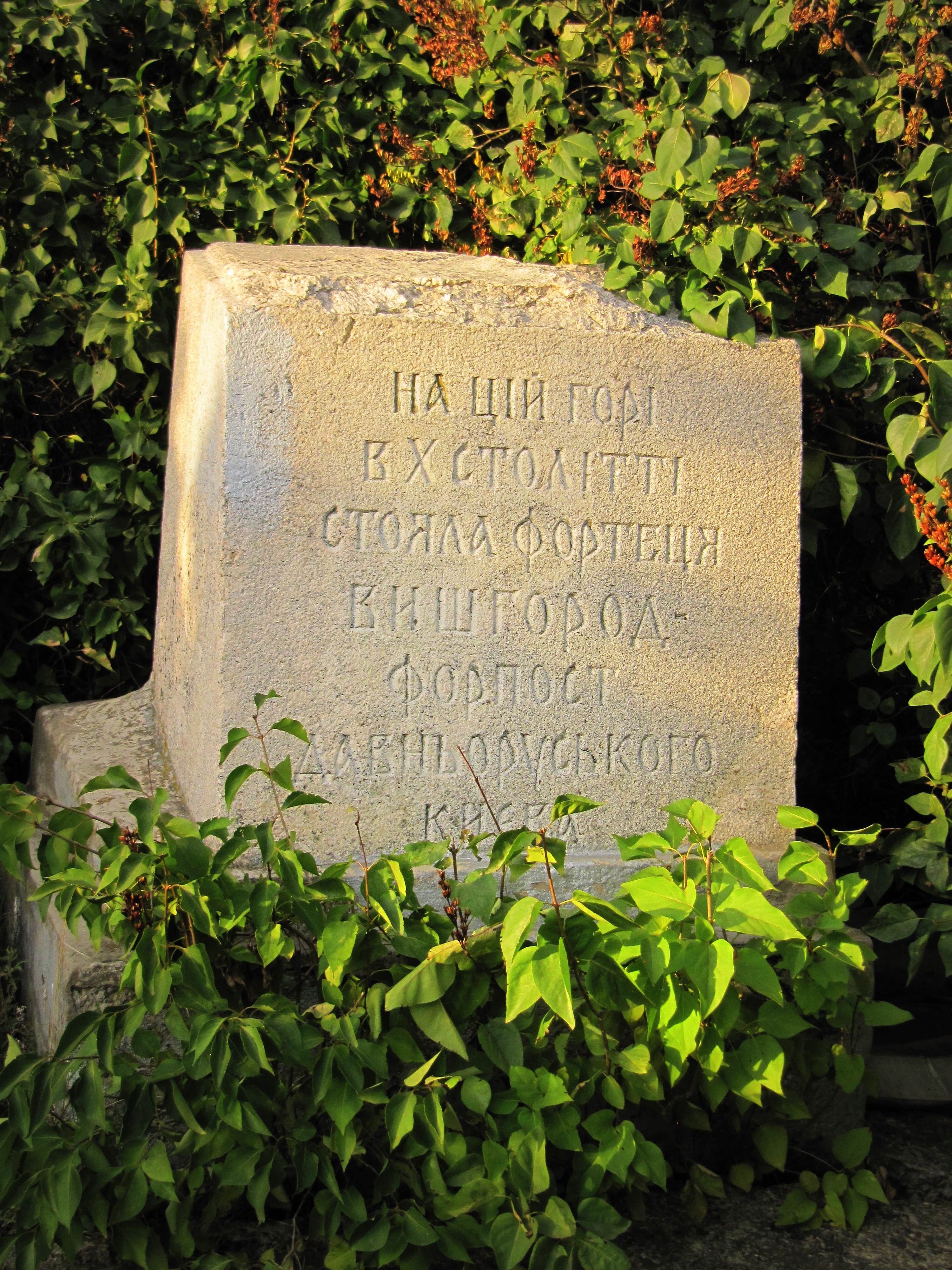 Ukraine, Vyshhorod. Old Vyshhorod hillfort.